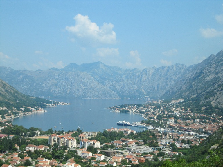 City of Kotor in Montenegro and bay of Kotor.